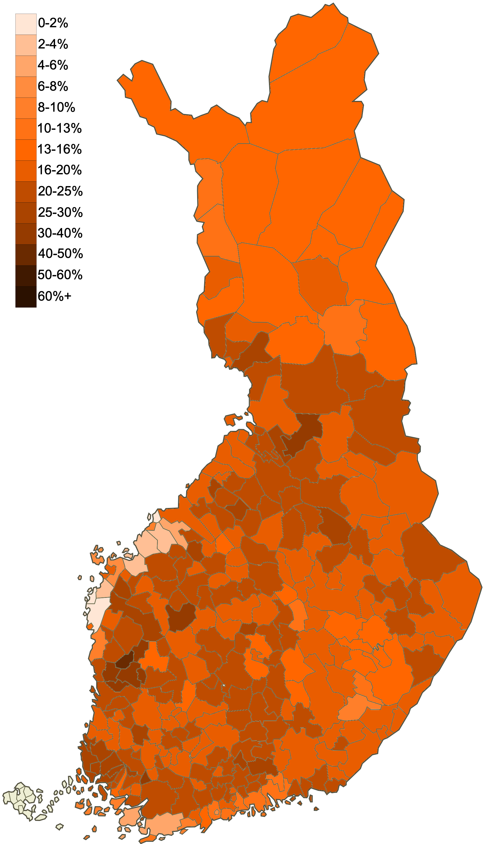 Support for the True Finns by municipality in the election for the Eduskunta.